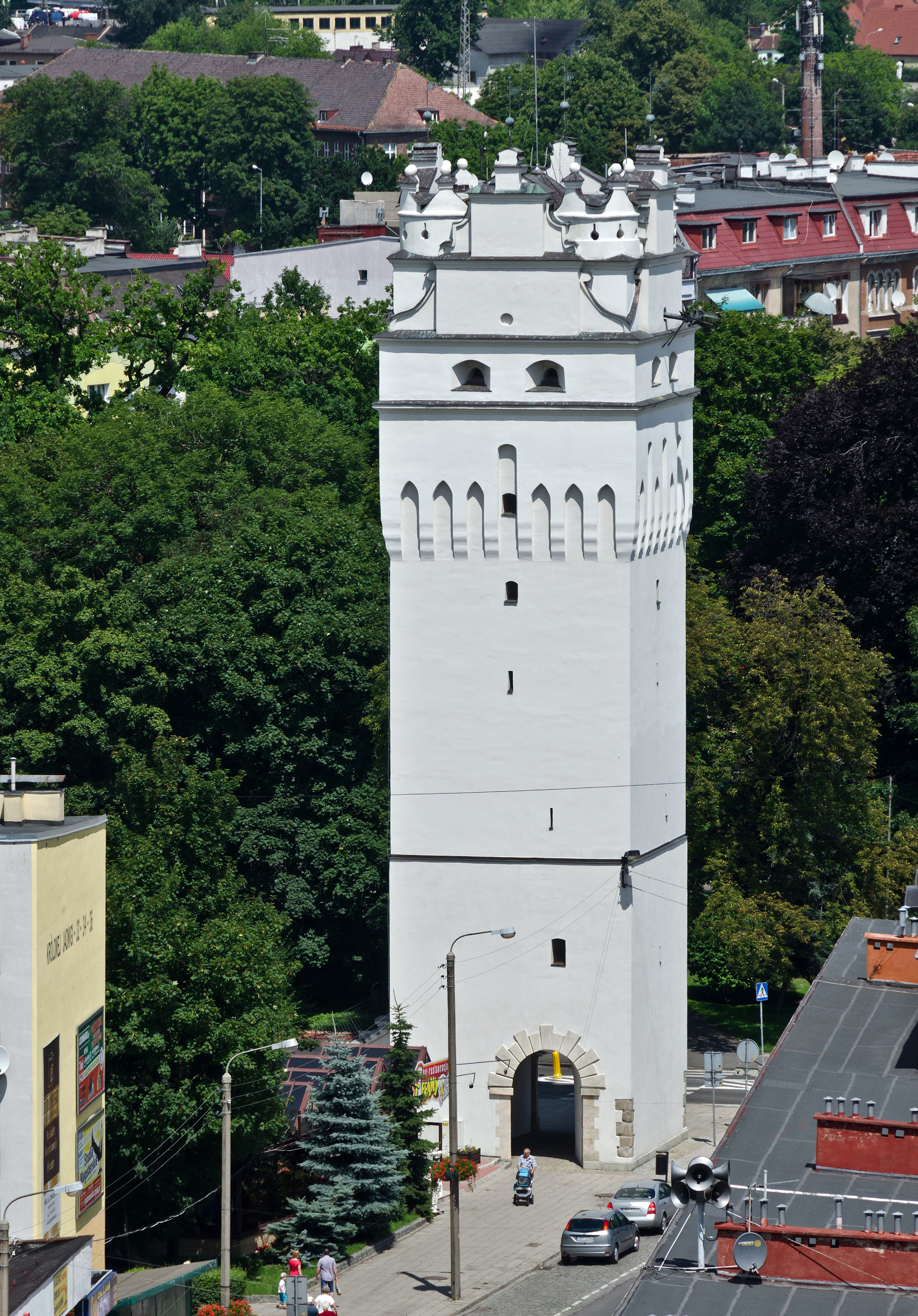 Wrocławska Gate in Nysa